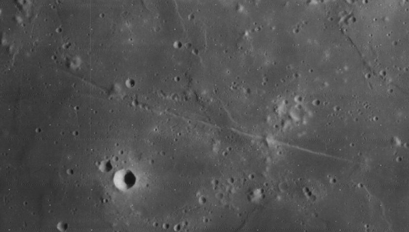 Rimae Daniell (Daniell Rilles), on the moon.